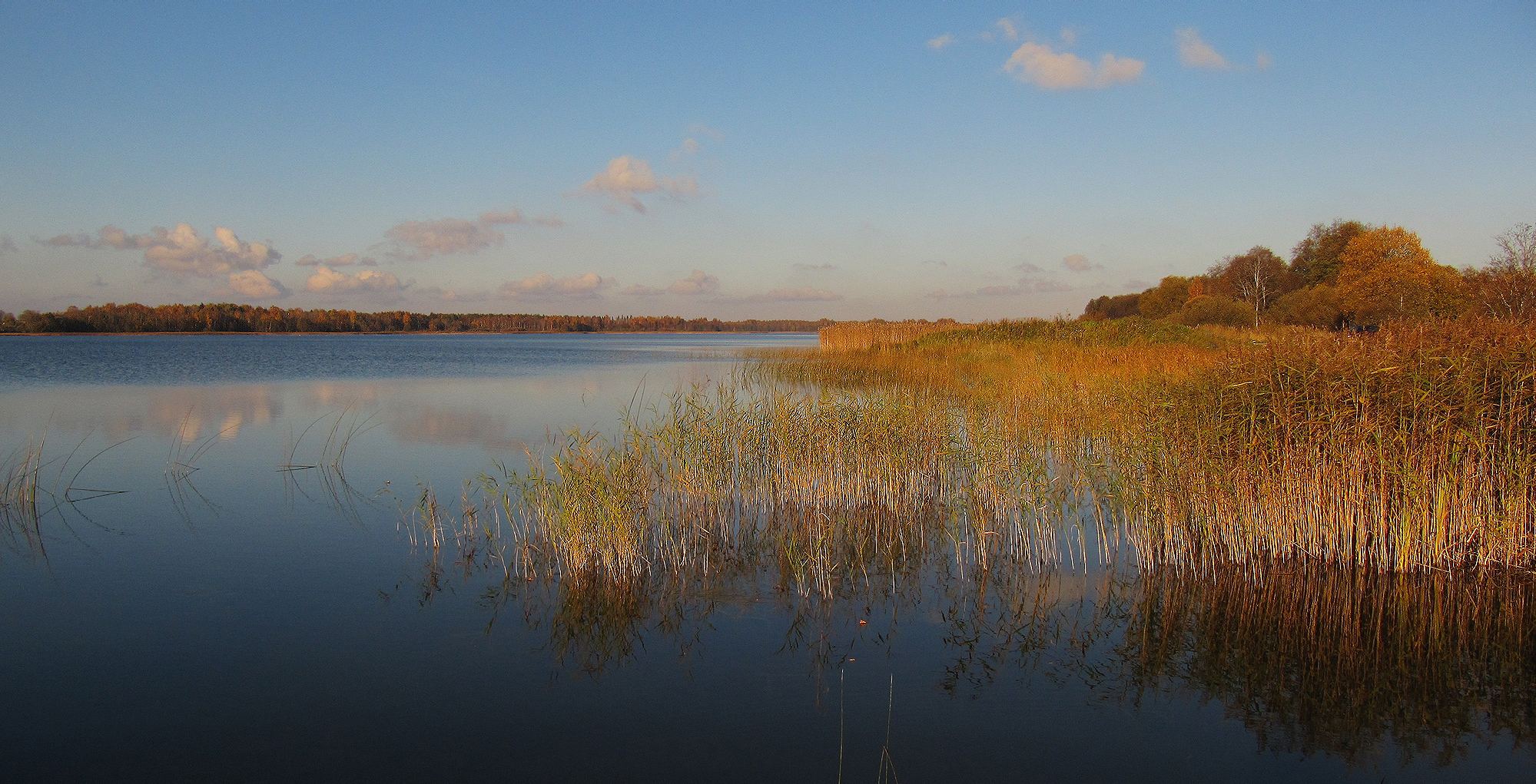 Lake Laidzes near SārceneLatviešu: Laidzes ezers pie Sārcenes